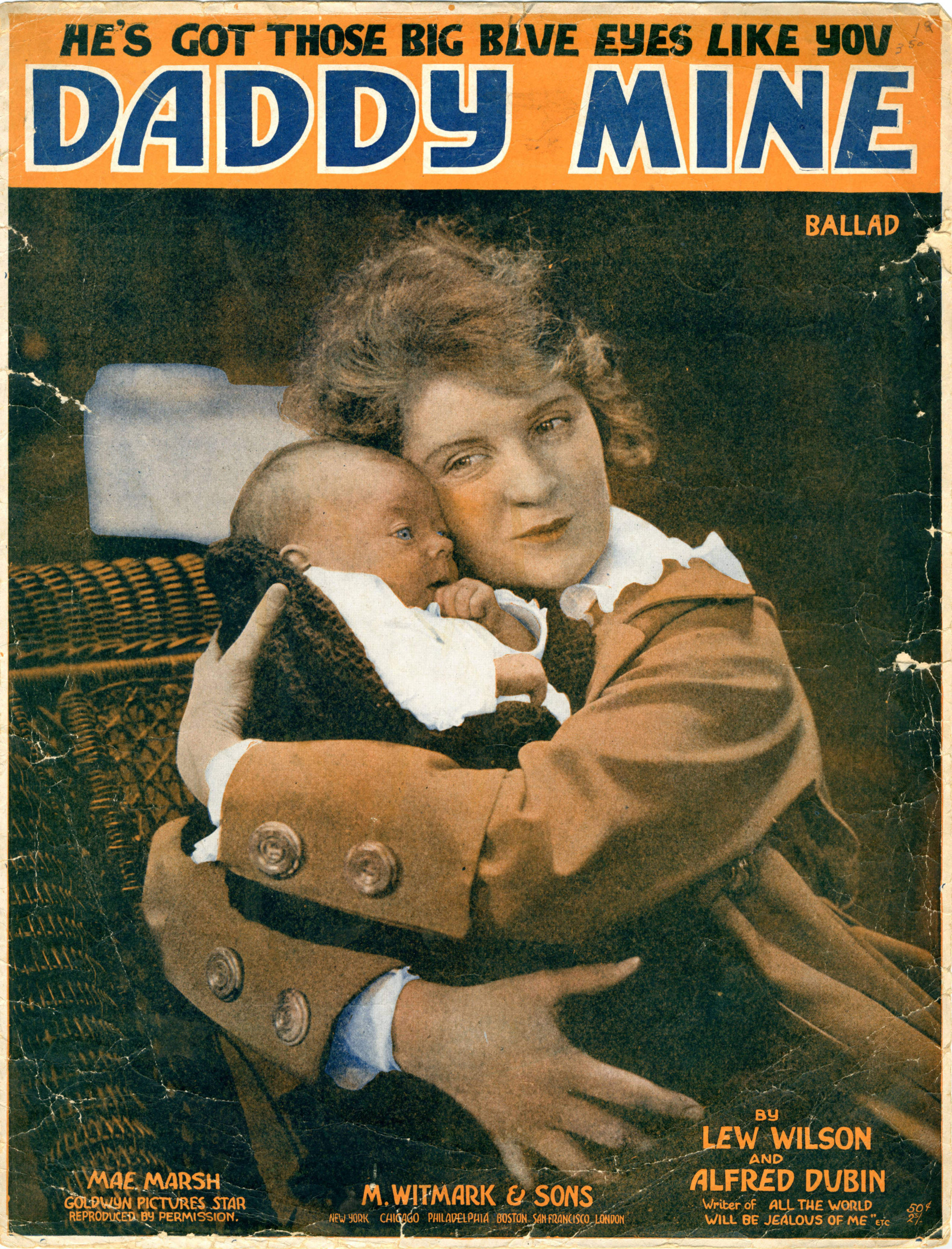 Sheet music cover: "He'S Got Those Big Blue Eyes Like You, Daddy Mine" 1 vocal score (3 p.) ; 35 cm. Illustrated cover with image of Mae Marsh.